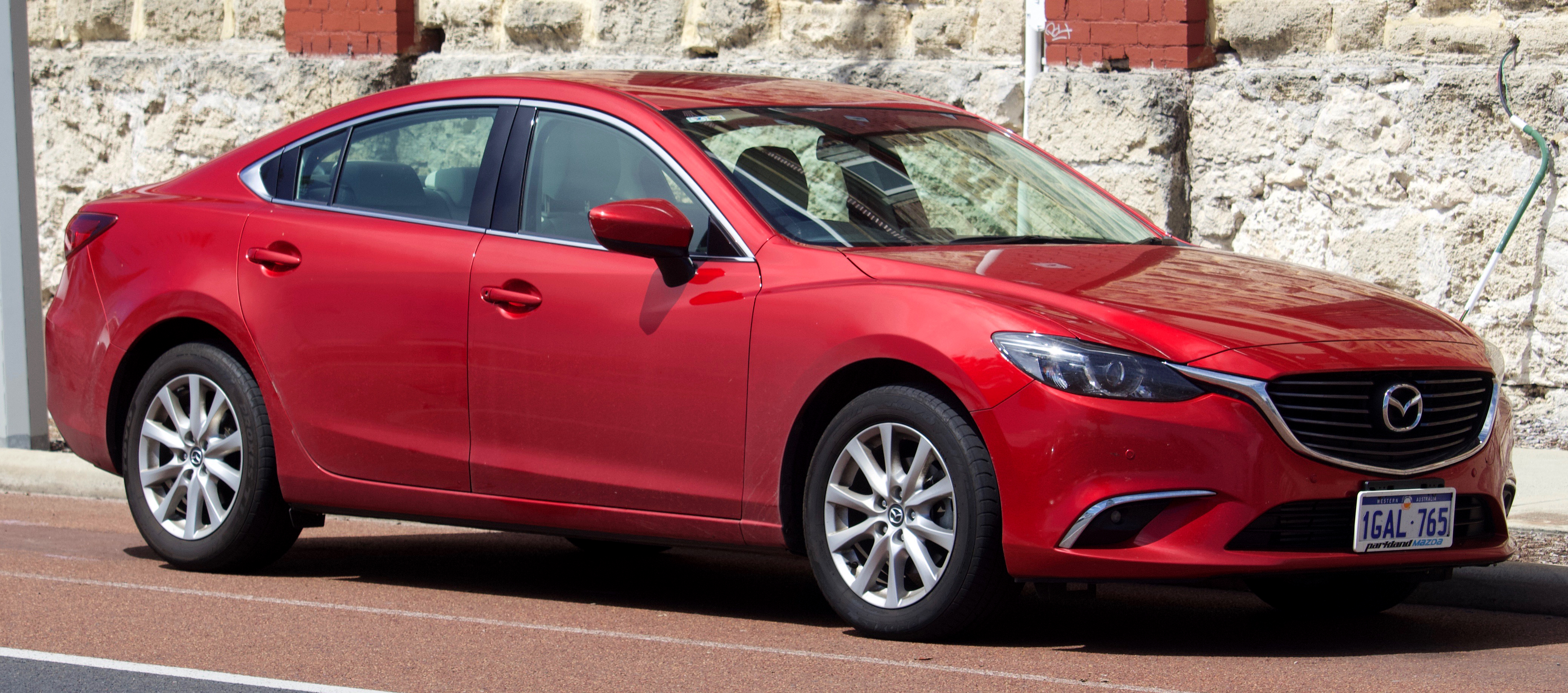 2016 Mazda6 (GJ Series 2) Touring sedan. Photographed in Fremantle, Western Australia, Australia.